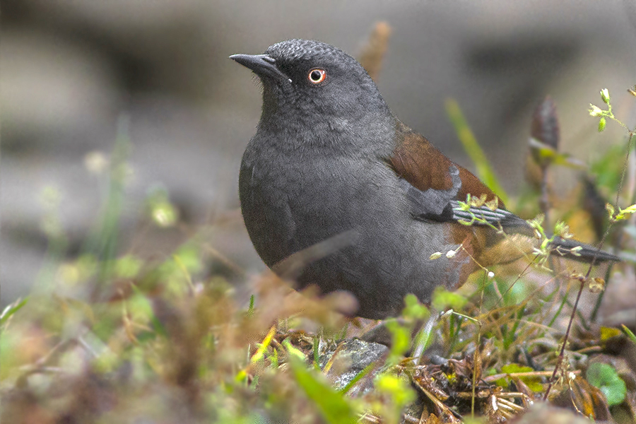 The species Maroon-backed Accentor had been photographed at Neora valley National Park in West Bengal, India on 08.12.2015.